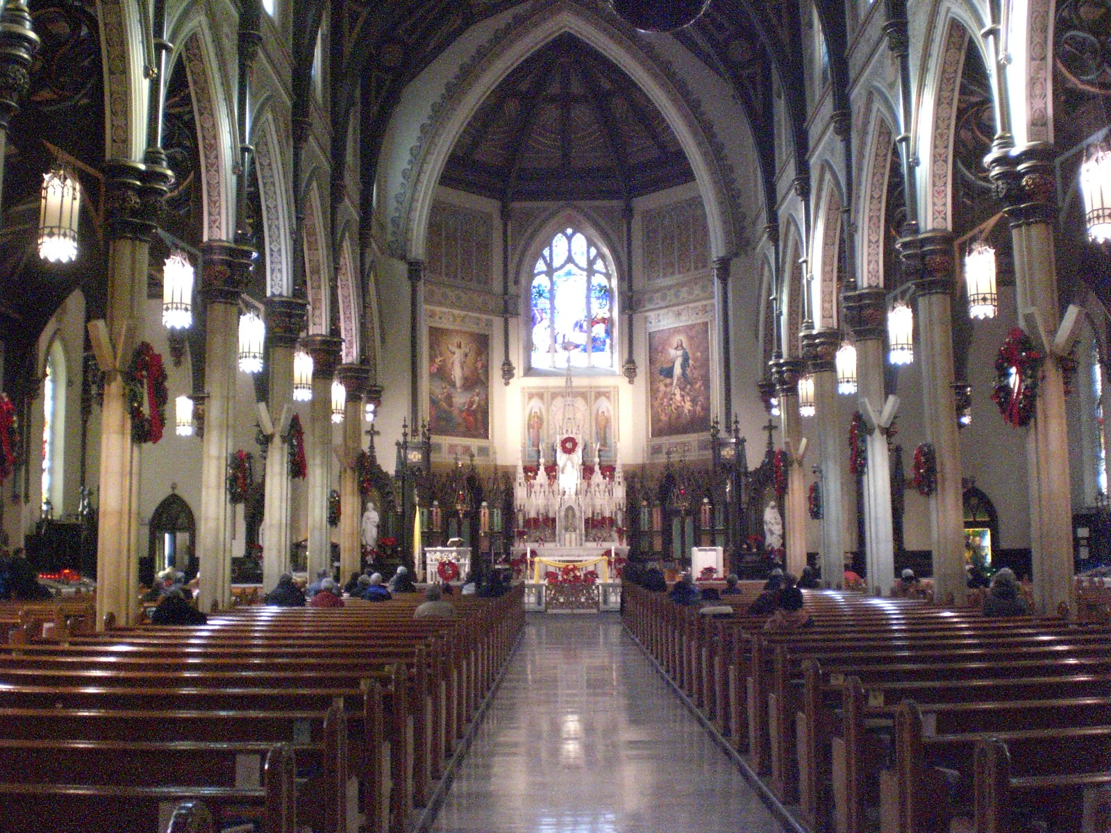 Photo of the interior of St. Patrick's Basilica, Ottawa